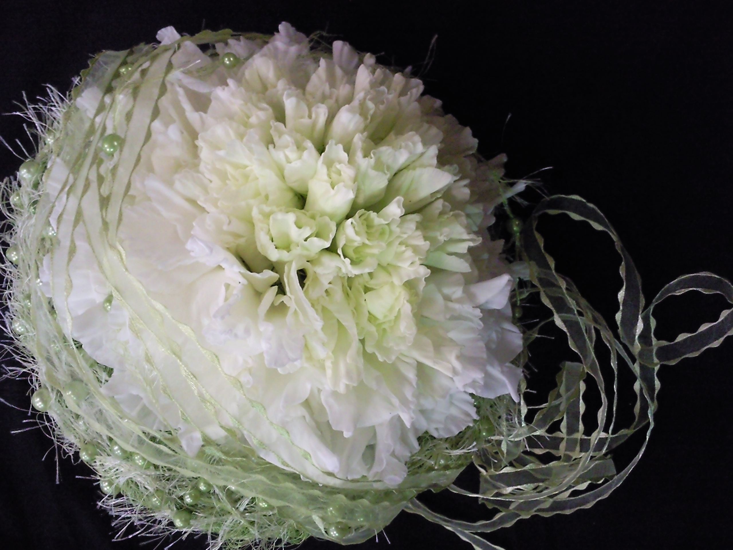 wedding bouquet glamelia design by Svetlana Lunin